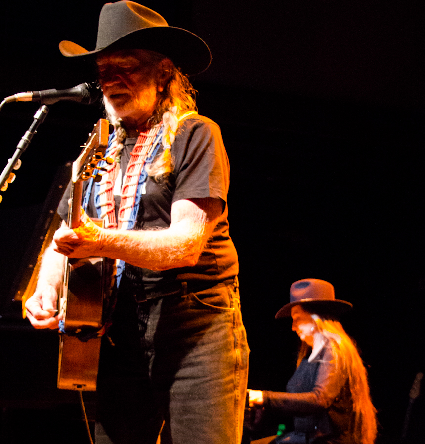 Singer-songwriter Willie Nelson, performing at the 9:30 club in Washington D.C.